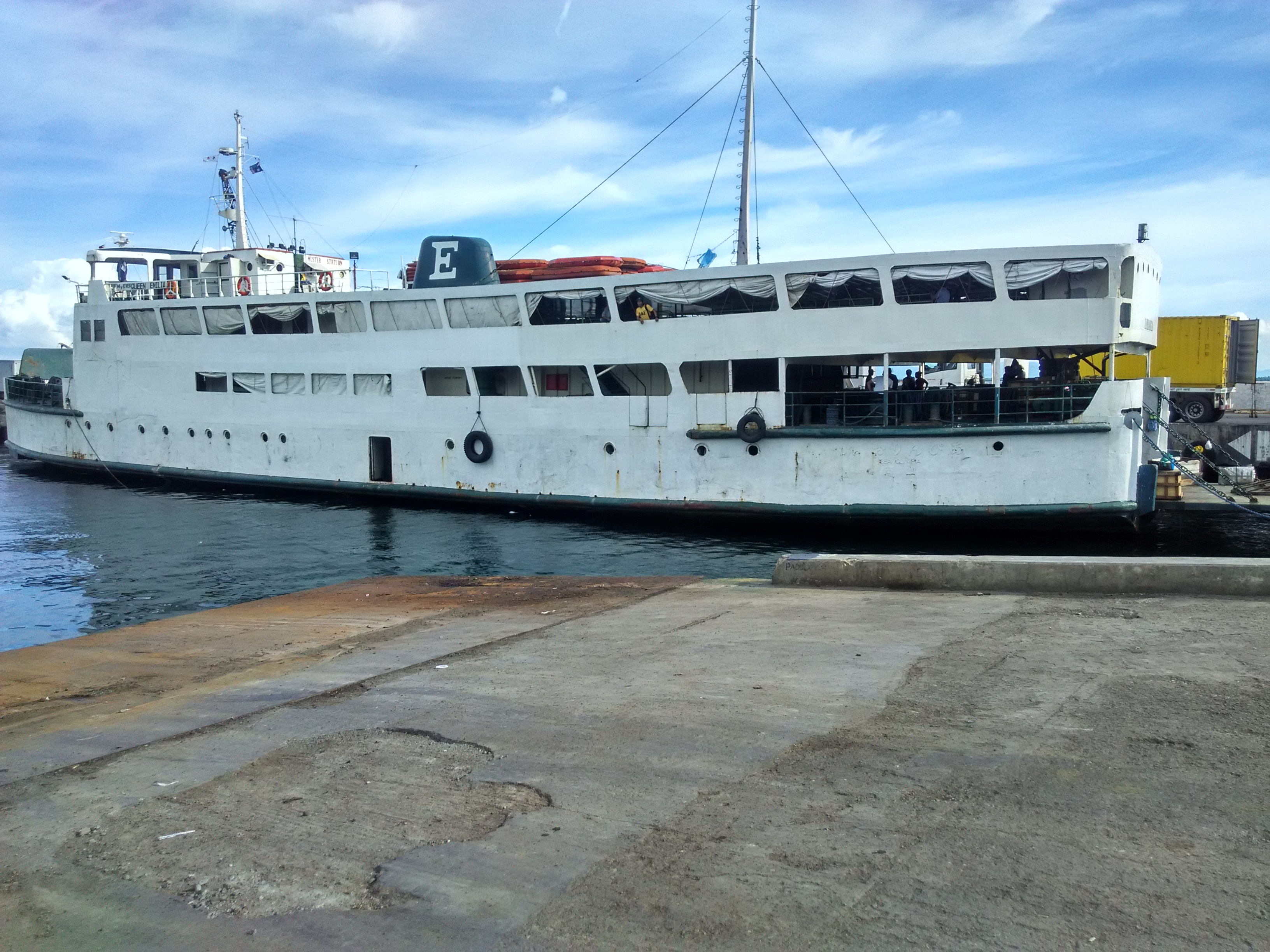 MV Ever Queen Emilia at Zamboanga International Seaport. Filipino Ship Enthusiast Coalition